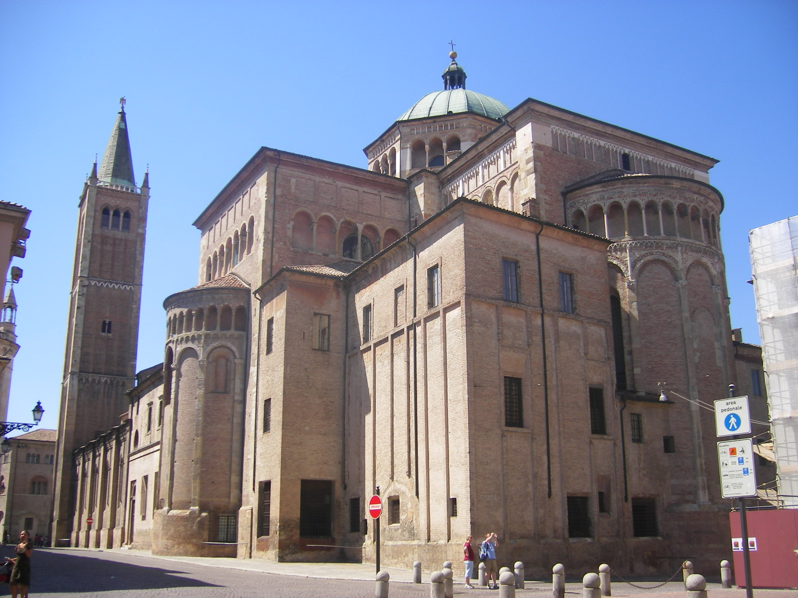 Parma - Cathedral